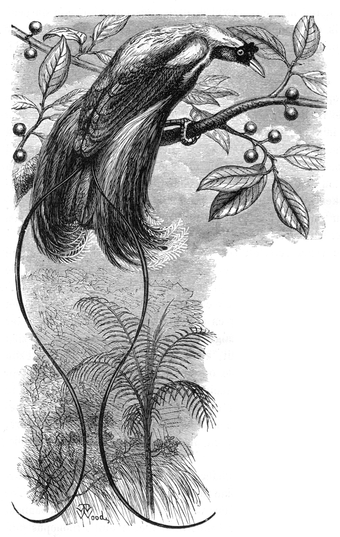 Caption reads "THE RED BIRD OF PARADISE (Paradisea rubra.)"